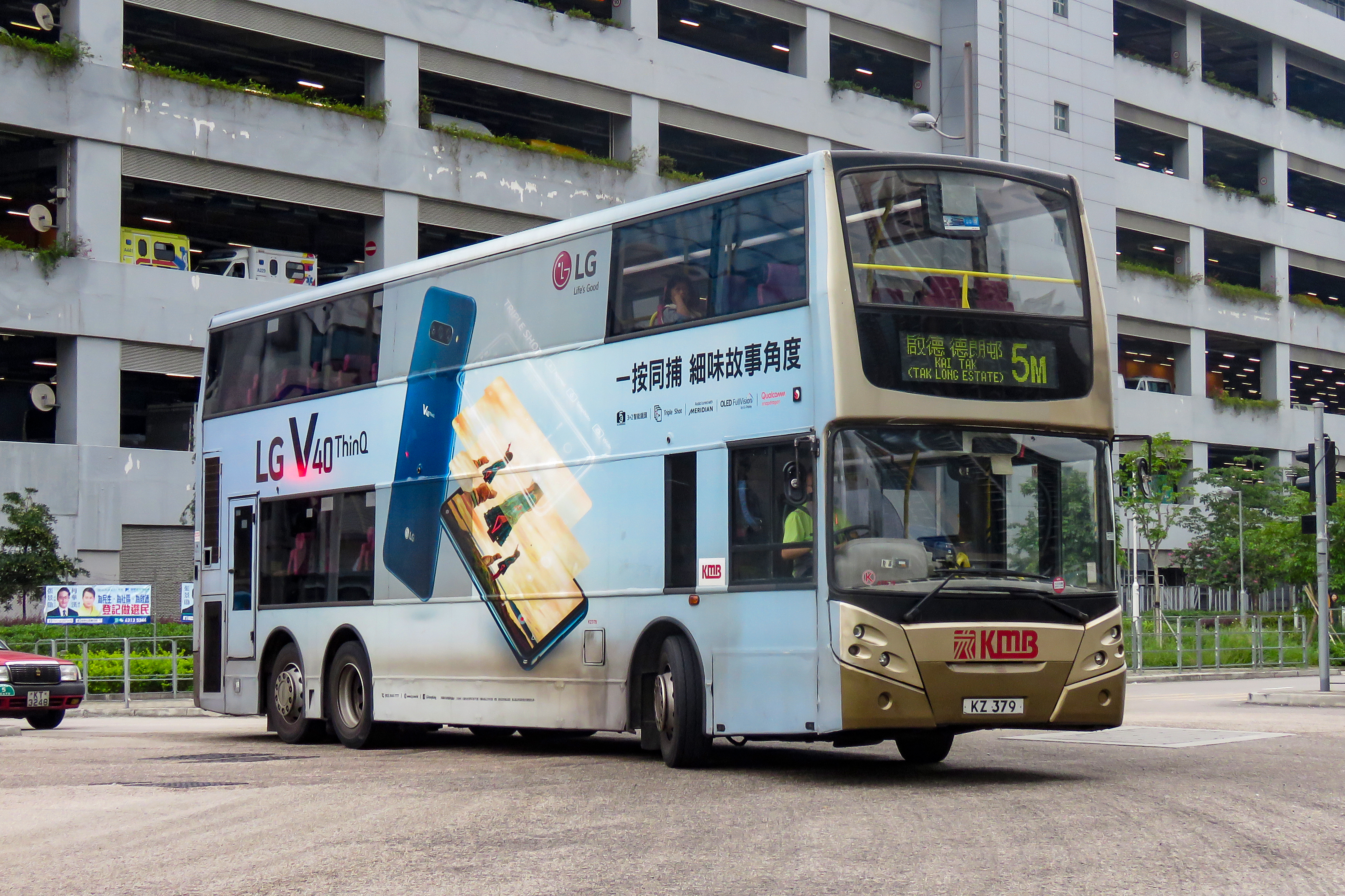 This is a key point...